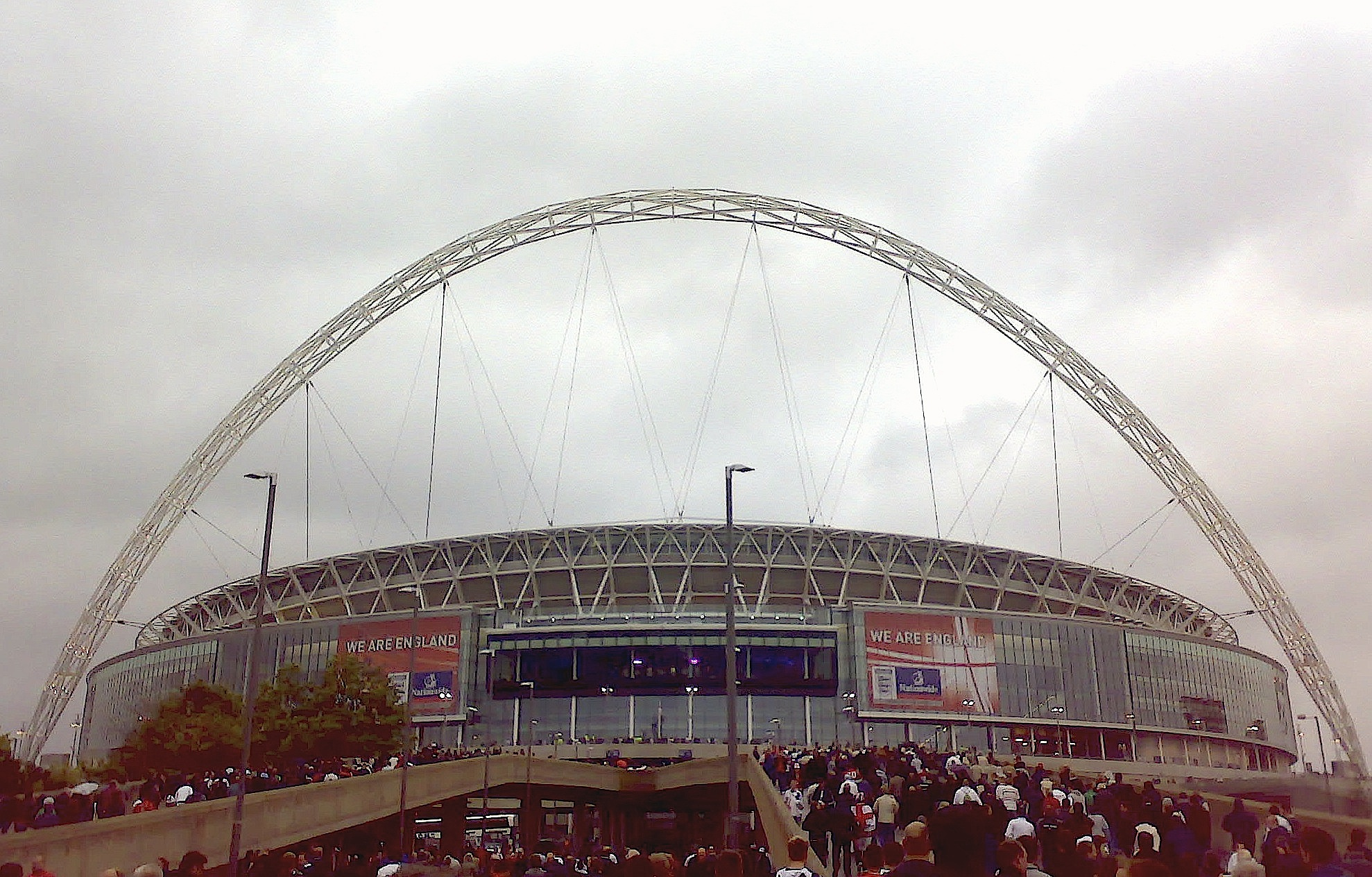 Taken on 22/08/2007 by myself.